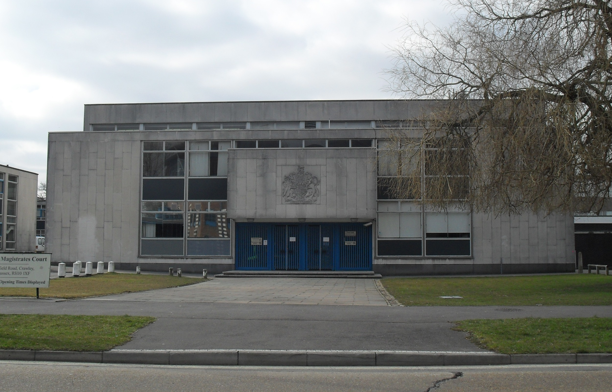 Crawley Magistrates Court, Woodfield Road, Northgate, Crawley, West Sussex, England.